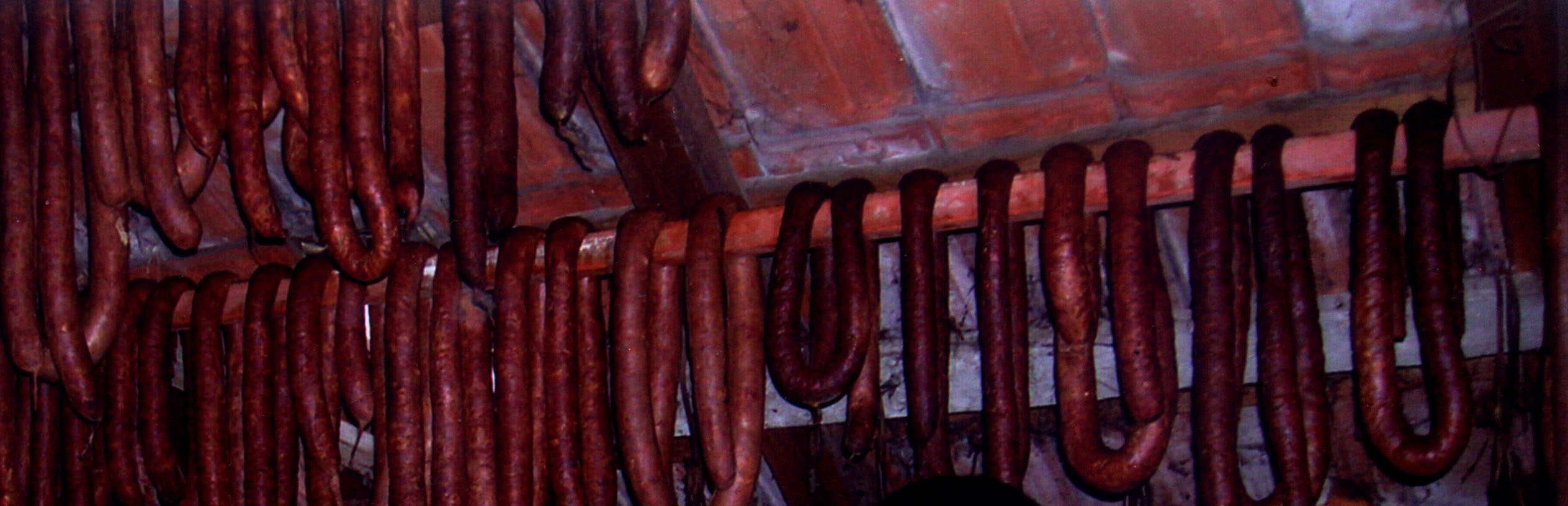 Smoked meat on Hungarian way, produced in Vojvodina, Serbia (Sausage)